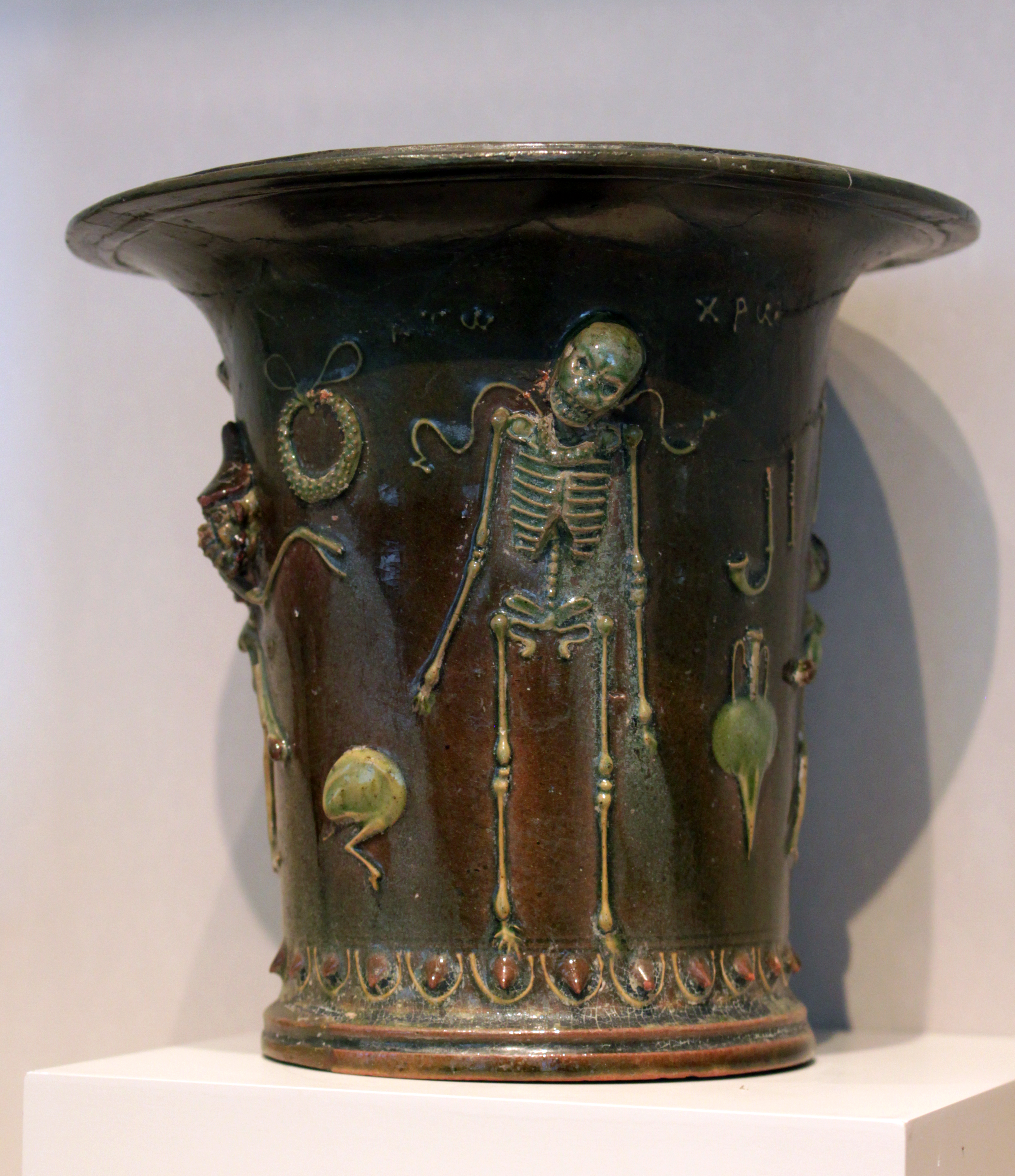 Ancient Roman drinking cup with skeletons ( Memento mori ). Lead-glazed ceramic, 1st century BC - 1st century AD. Altes Museum, Berlin.